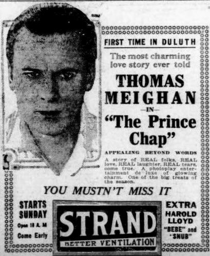 Newspaper advertisement for the American drama film The Prince Chap (1920) with Thomas Meighan, on page 10 of the February 4, 1922 Duluth Herald.